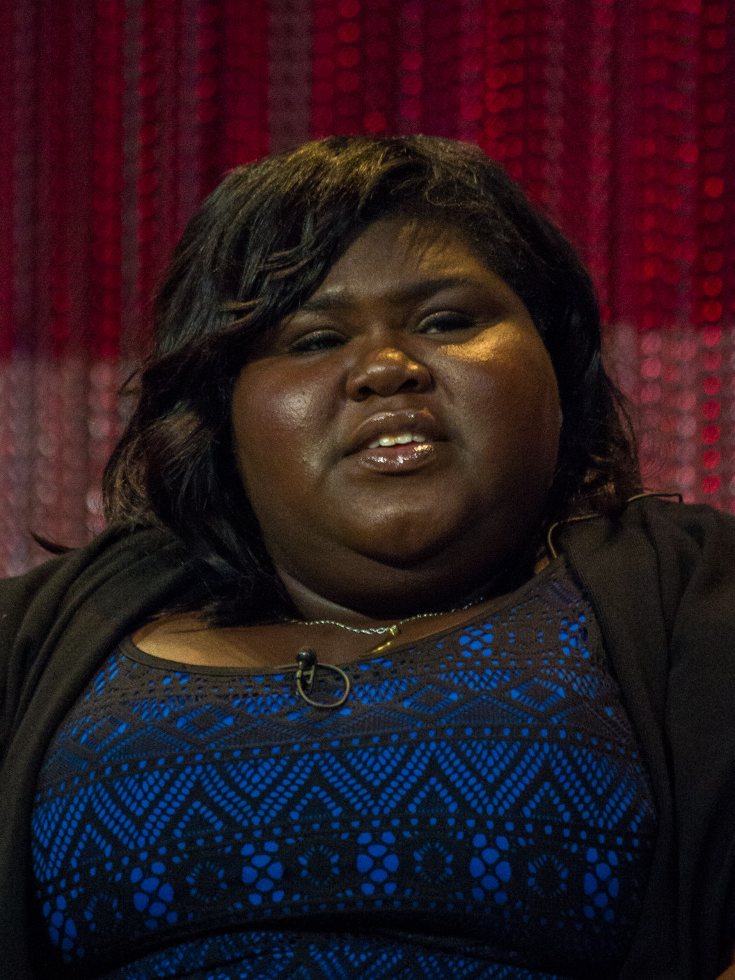 Gabourey Sidibe at PaleyFest 2014 for the TV show "American Horror Story: Coven"